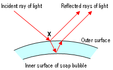 In the diagram above a ray of light hits the surface at point X. Some of the light is reflected, but some travels through the bubble wall and is reflected at the other side